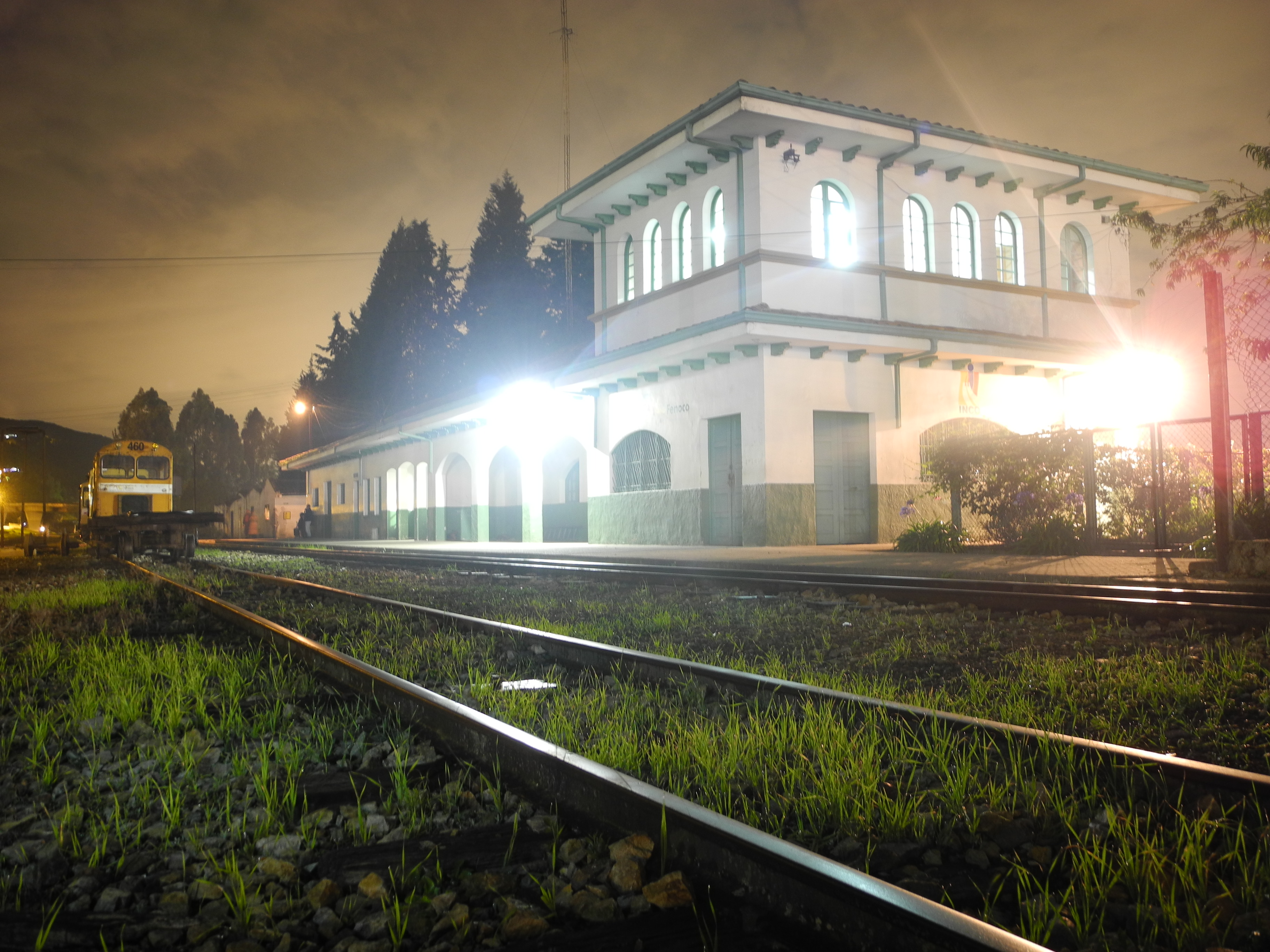 La Caro train station.